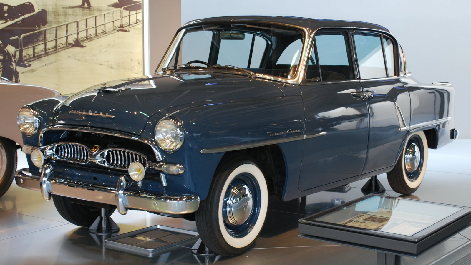 1st generation Toyopet Crown Model RSD (1955/1 - 1958/10)